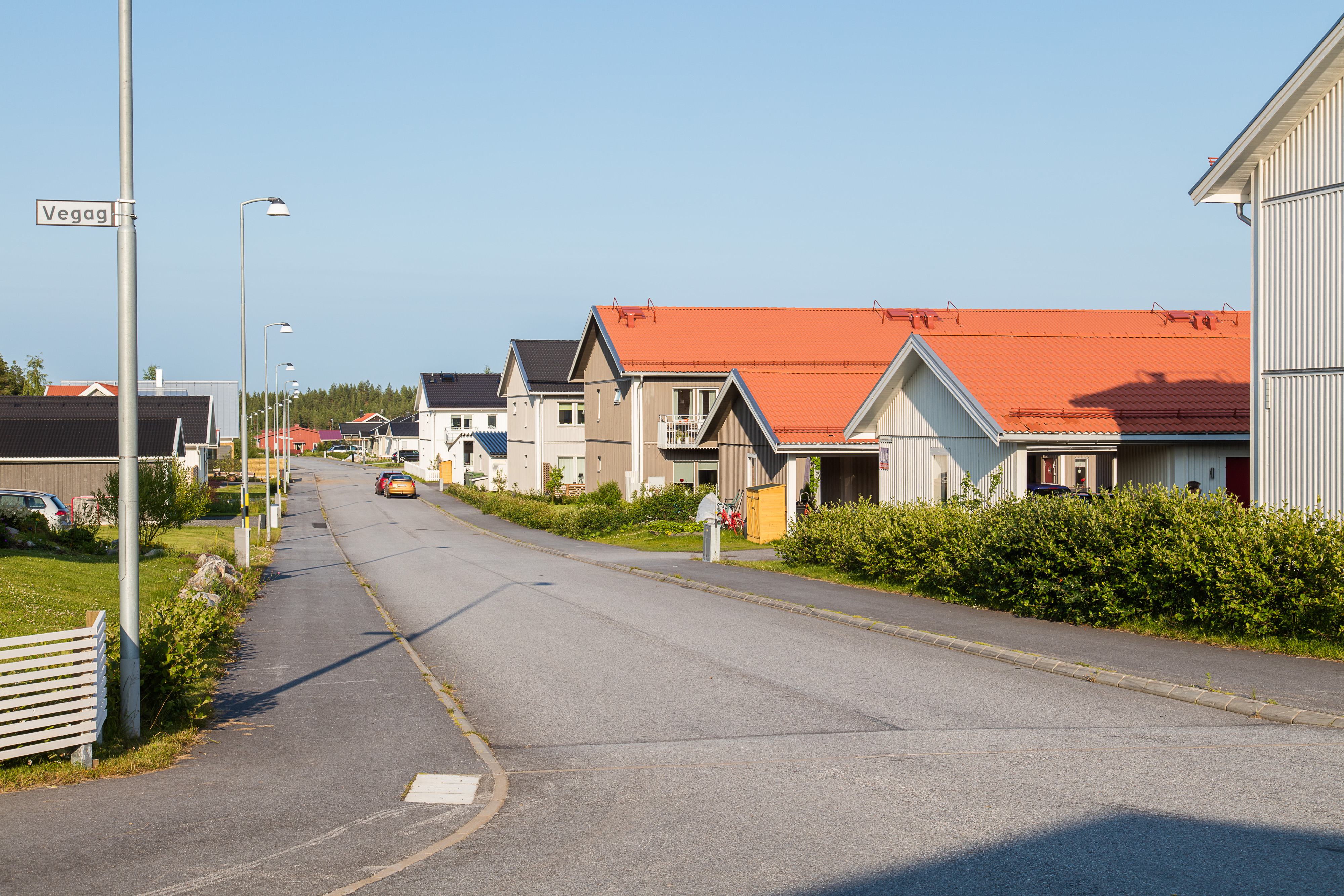 Tavleliden is a suburb i the eastern part of Umeå.